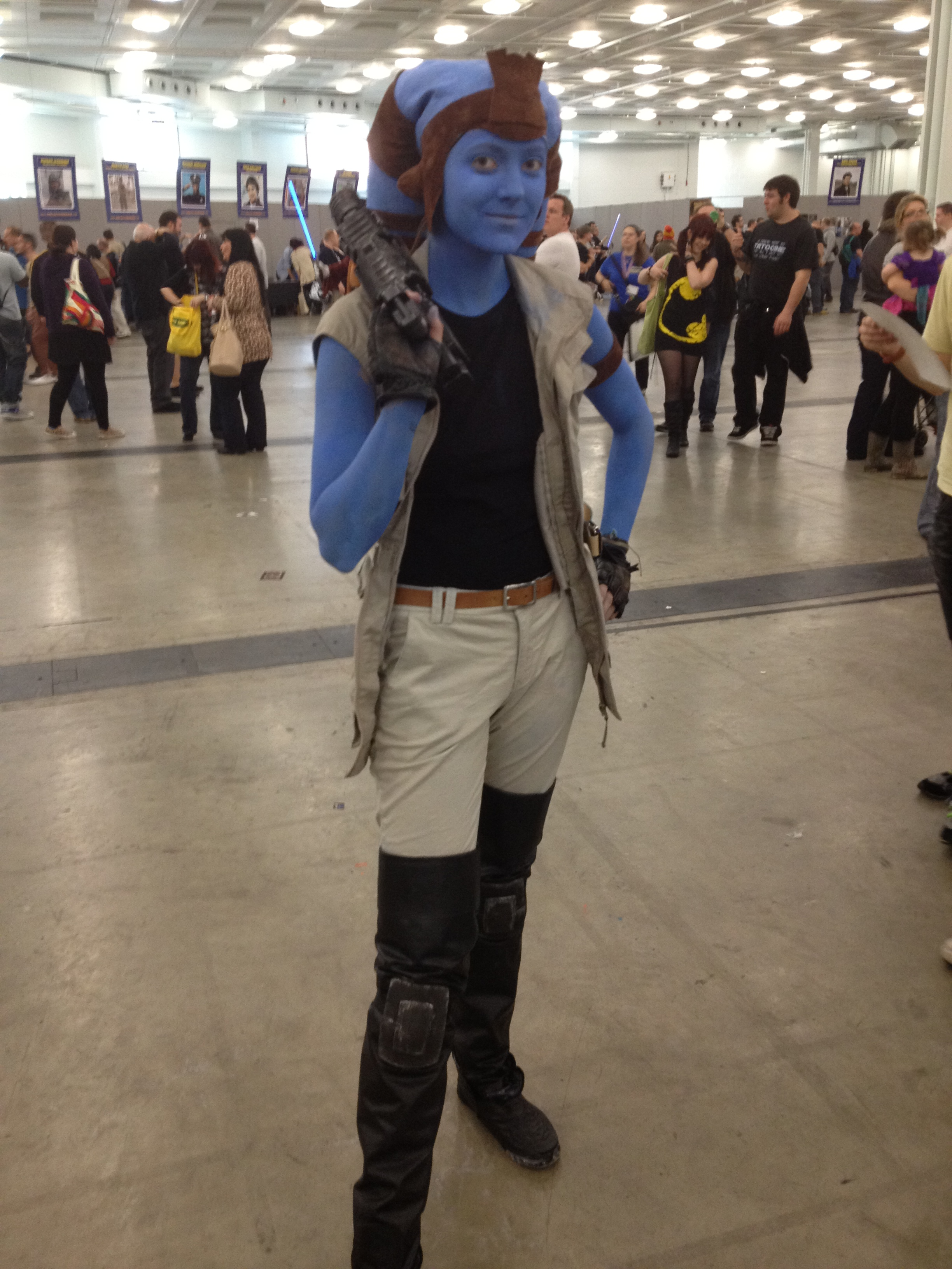 Cosplayer as Mission Vao, a Twi'lek (humanoid alien species from the Star Wars Universe), at the London Film and Comic Con in July 2012